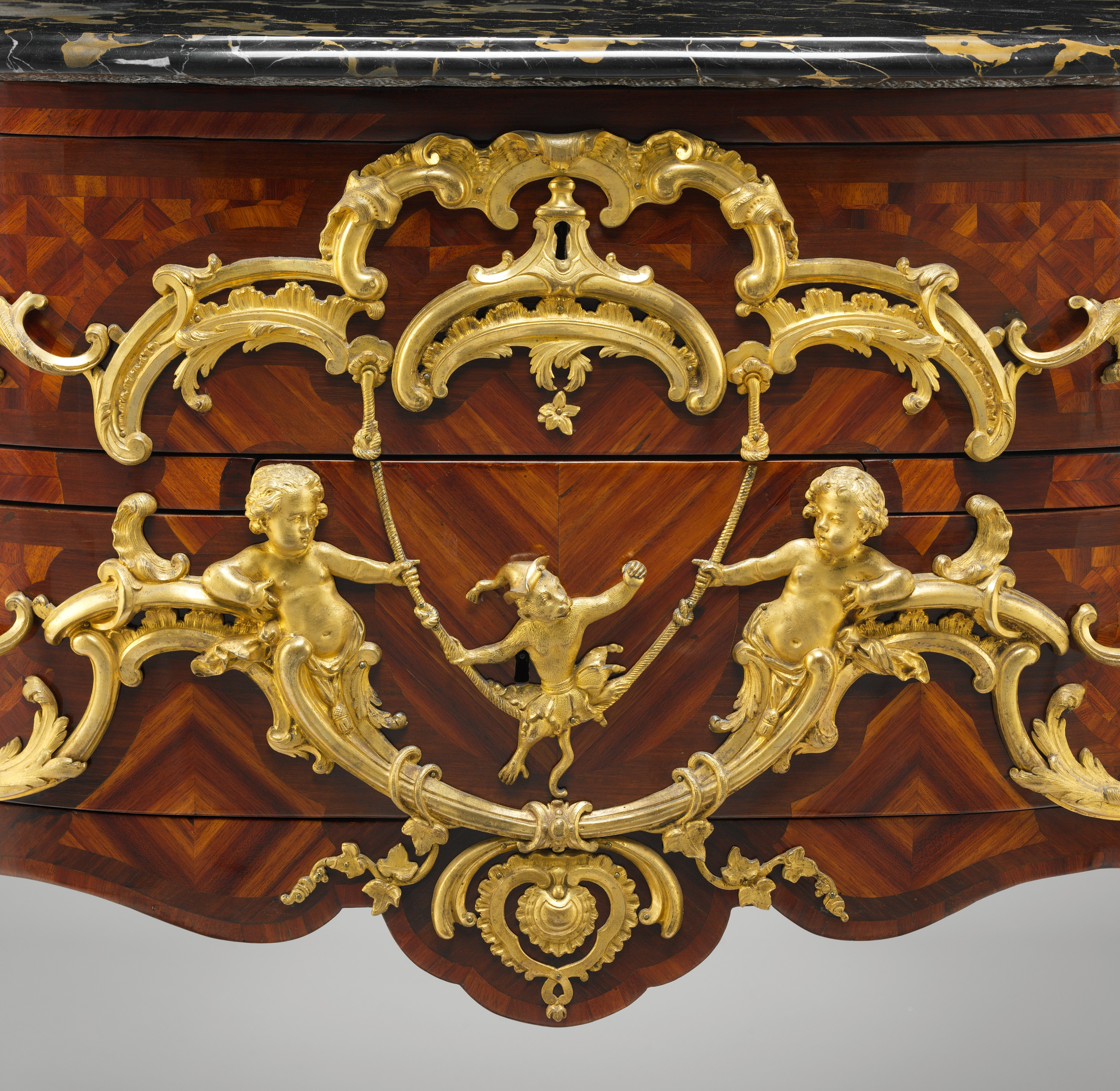 French, Paris; Commode; Woodwork-Furniture